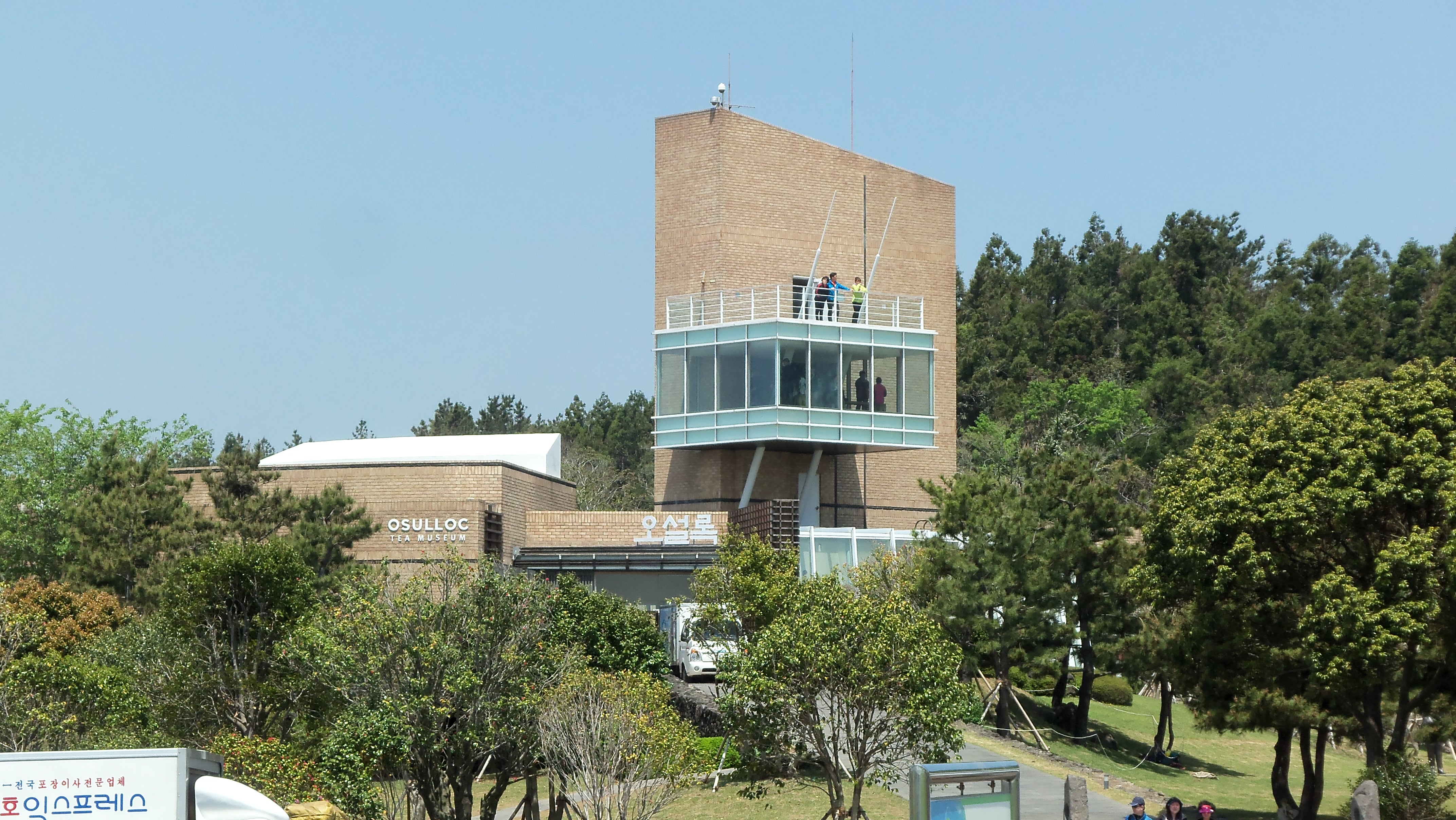 O'Sulloc Tea Museum in near Seogwipo on Jeju.